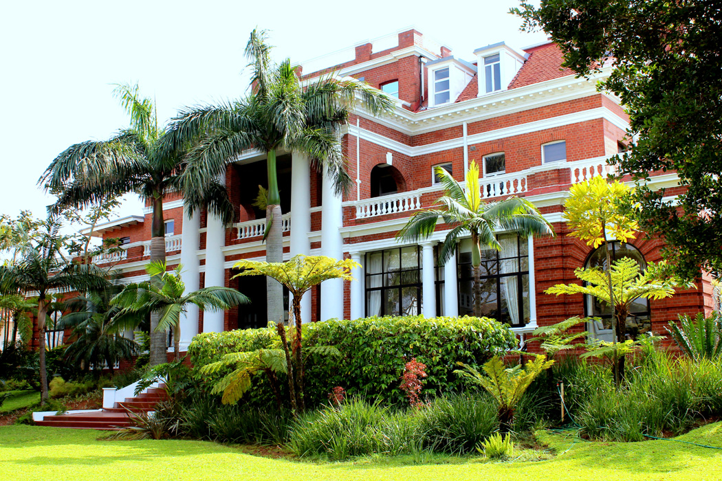 This magnificent building with its Baroque style colonnades and large porticoes is now used for offices. This media shows a South African Protected Site with SAHRA file reference 9/2/407/0006.